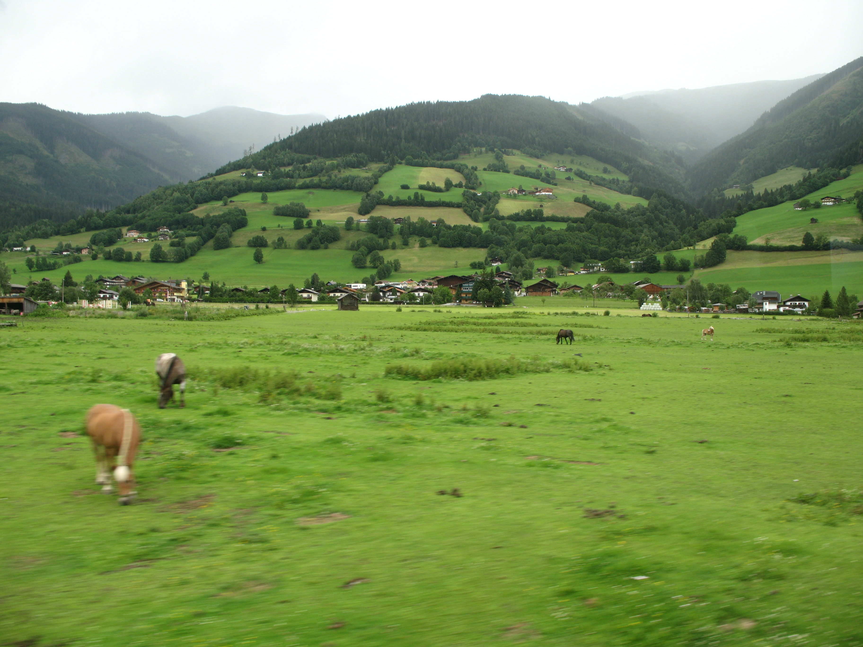 Pinzgaubahn, Between Mittersill and Krimml, Austria